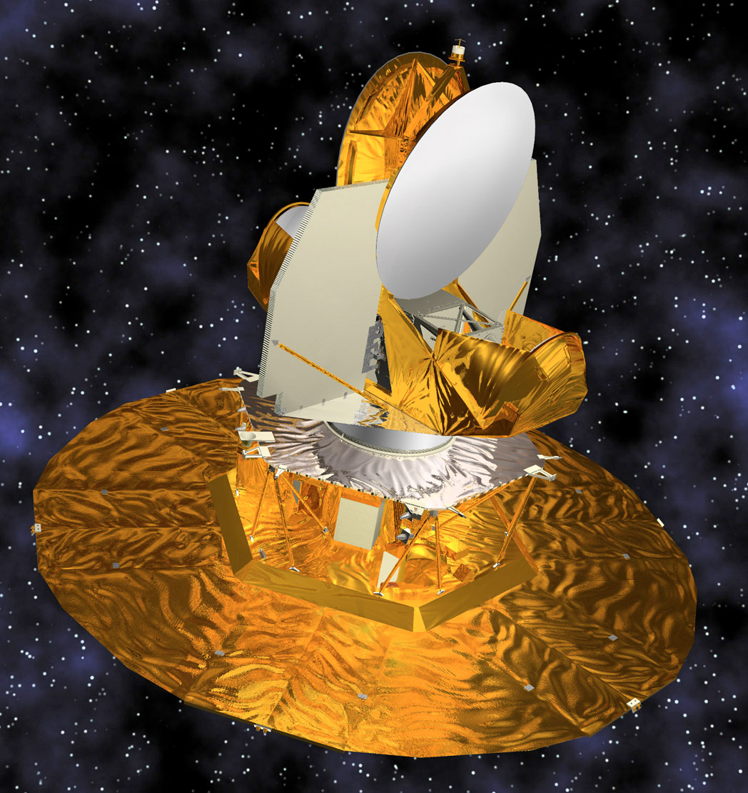 NASA-created illustration of the WMAP spacecraft, with background